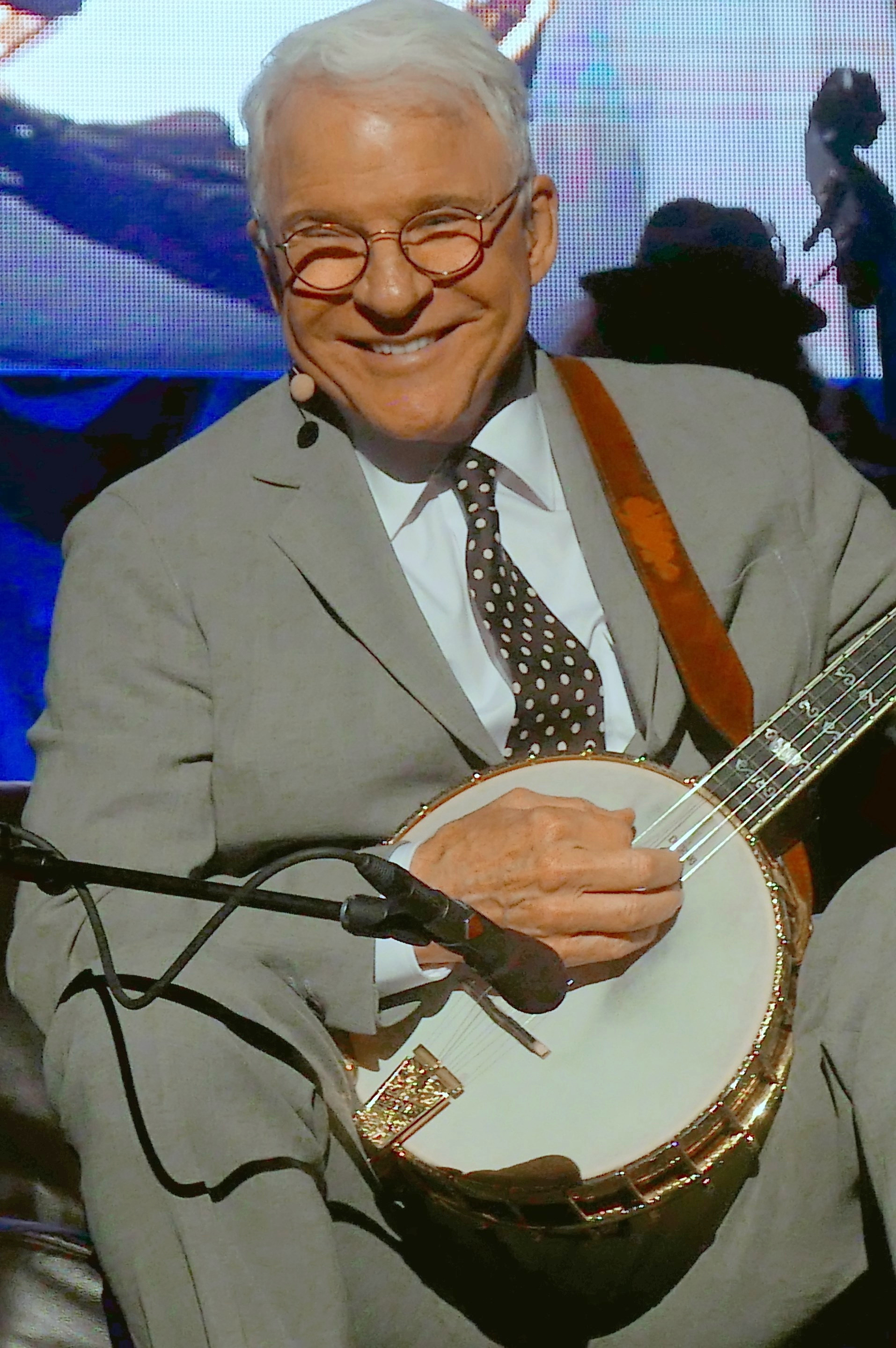 Steve Martin, performing in Concord, CA, on August 11th, 2017.